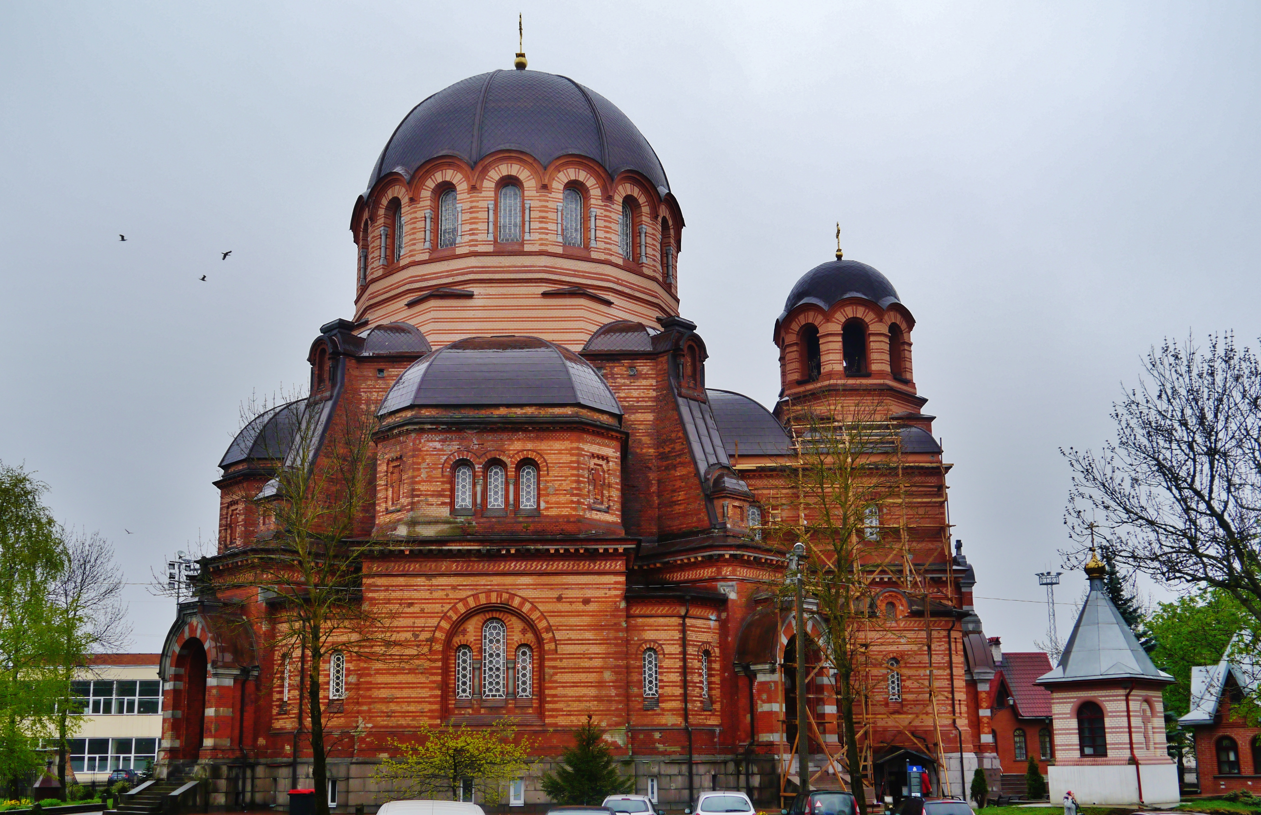 Russian Orthodox Cathedral of the Resurrection, Narva, Estonia